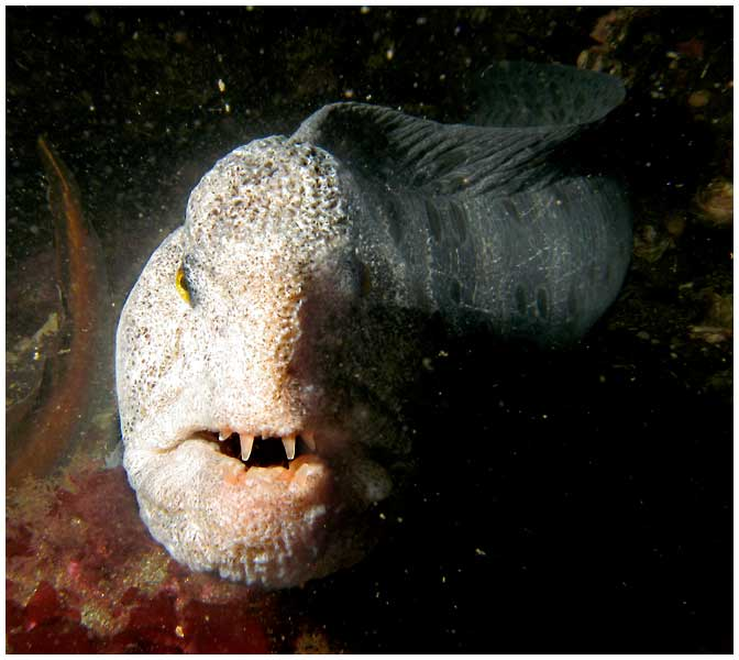 Wolf Eel